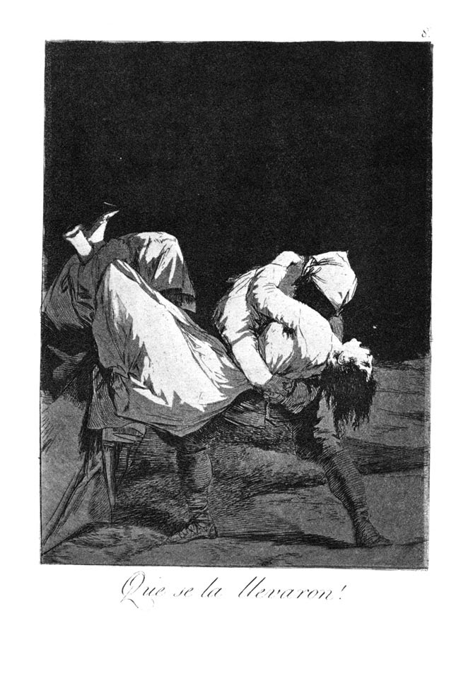 Los Caprichos is a set of 80 aquatint prints created by Francisco Goya for release in 1799.